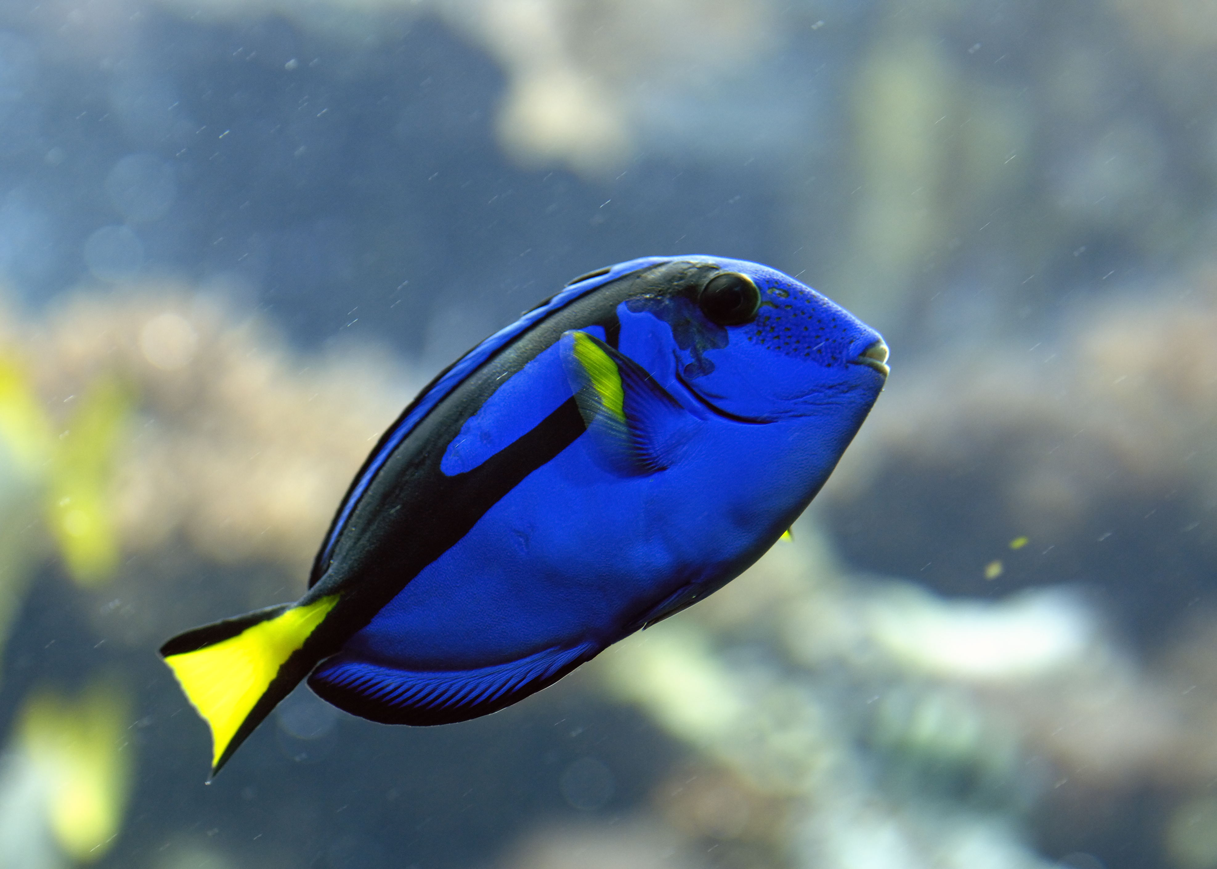 Austria, Vienna, Tiergarten Schönbrunn